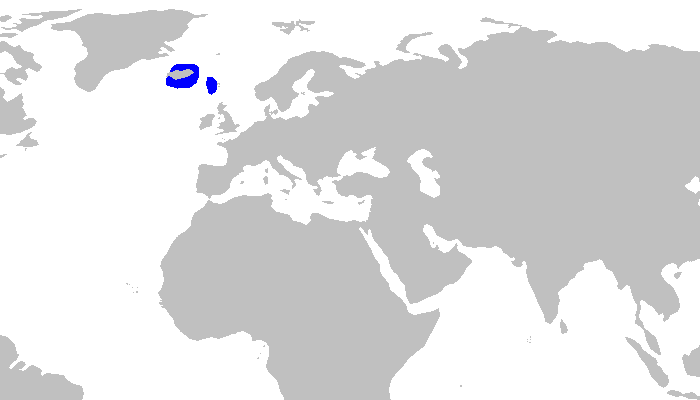 Distribution map for Galeus murinus